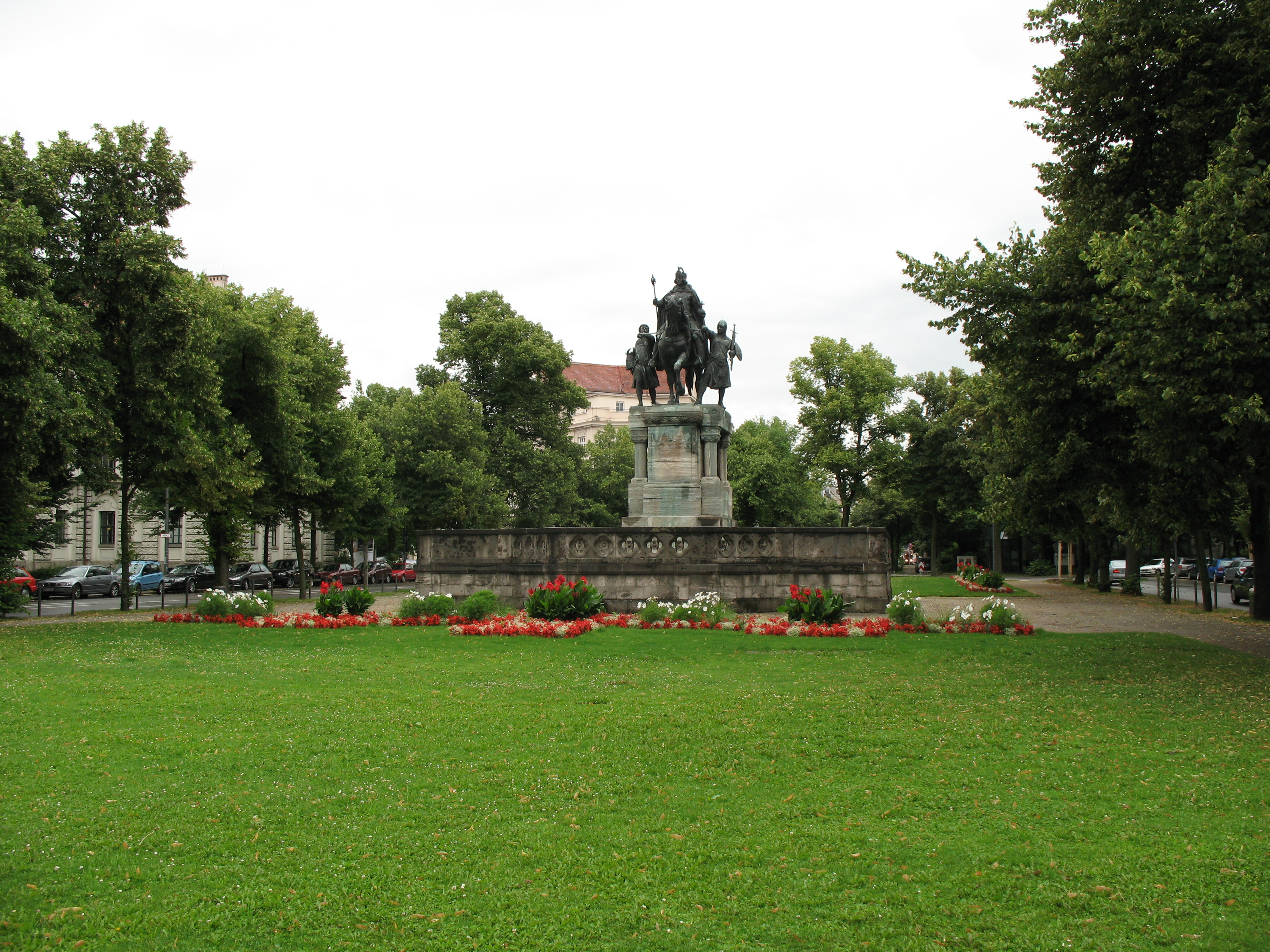 Emperor Ludwig Plaza, Munich, Germany - Google Maps - Google Earth